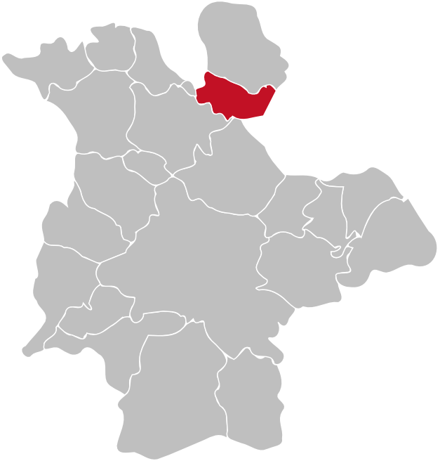 Location of the district Niedersetzen within Siegen, Germany. Red/Grey colors match the color scheme of Germany maps and information boxes in German Wikipedia. District is highlighted in red.